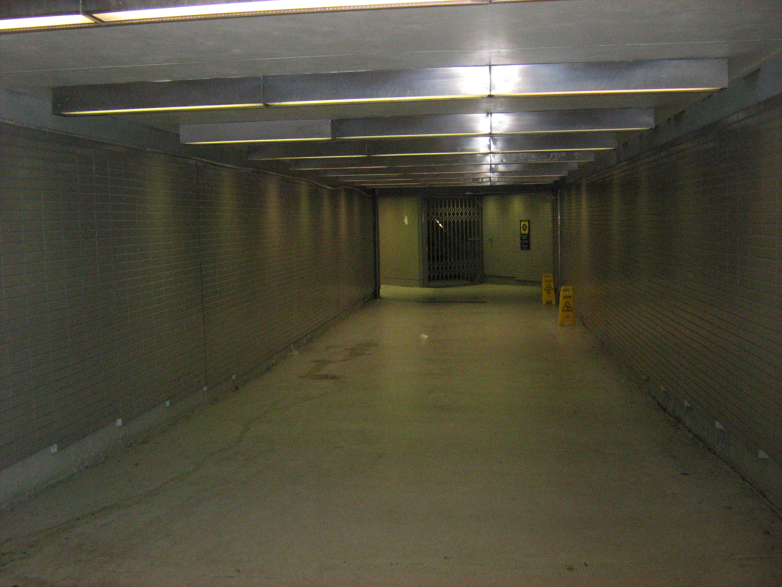 Part of the Chicago Pedway.